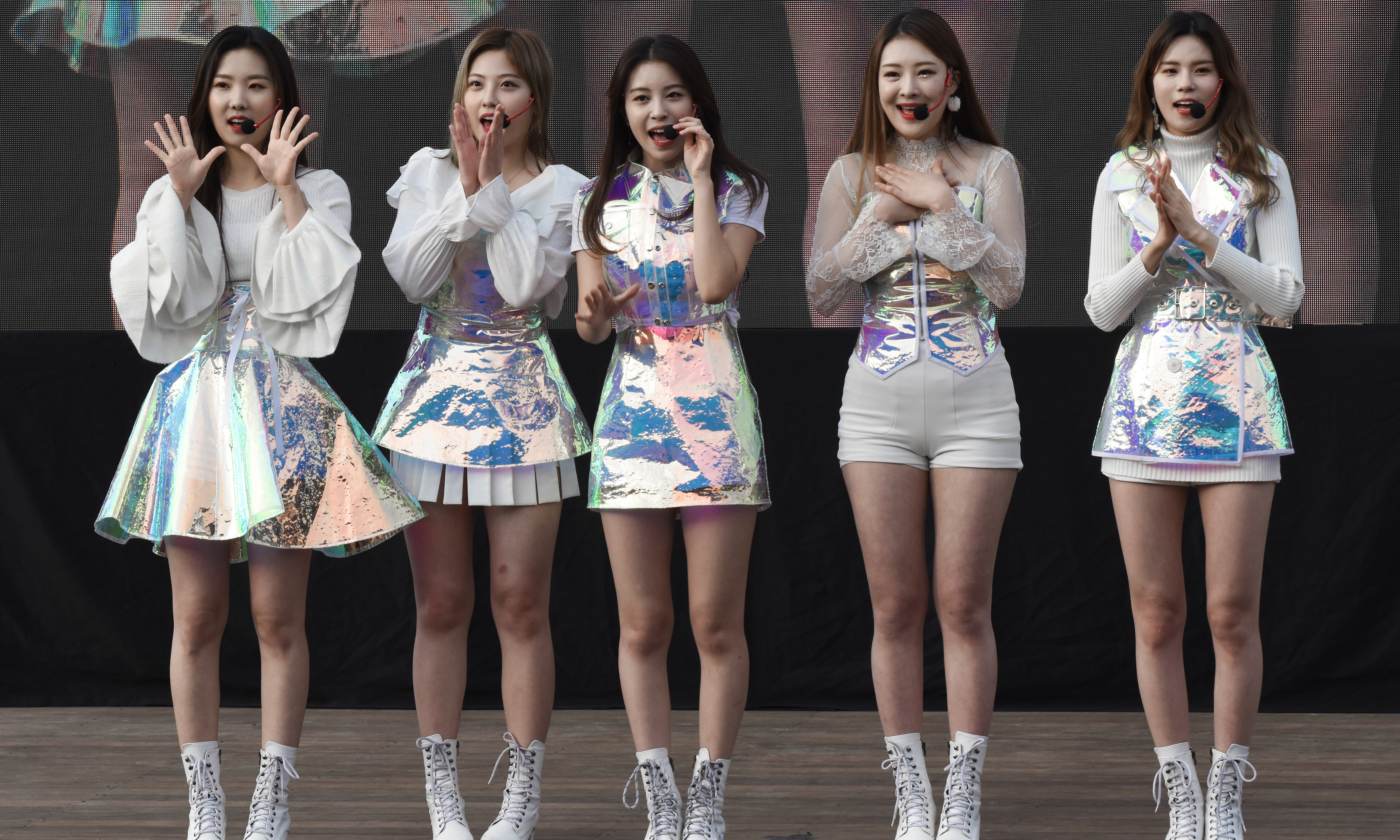 NeonPunch at the 4th Happy Festival of Urban Kids on November 10, 2019.